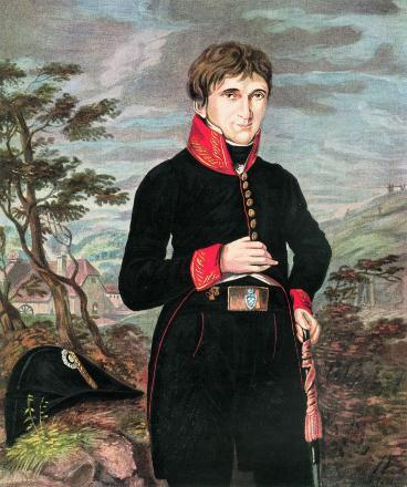 Johann Wilhelm Buderus I. (*1690, in Nassau/Lahn †1753/1806? in Friedrichshütte, Laubach), Founder of Buderus Company